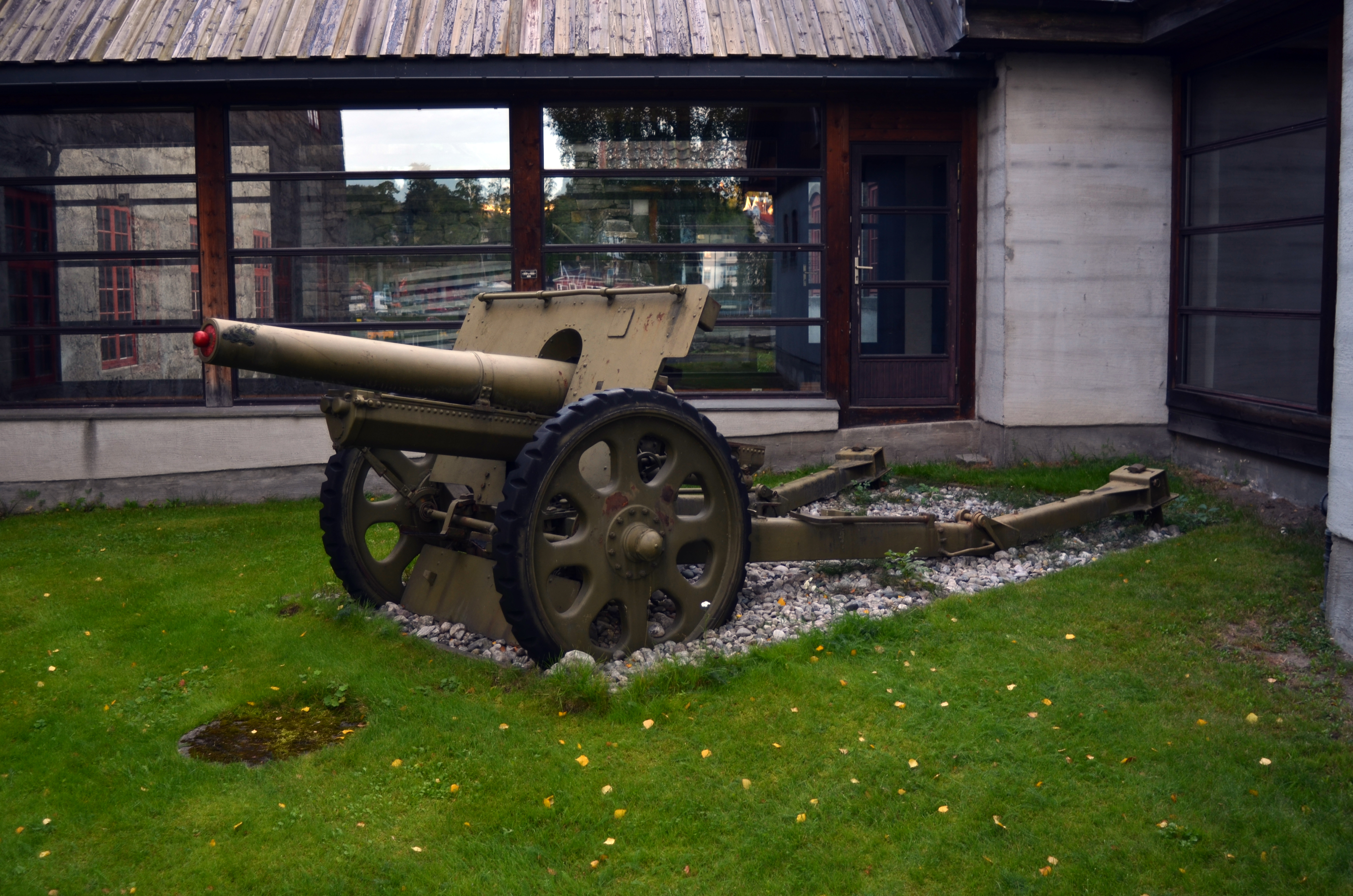 12 cm field howitzer L/20 M/32 no. 6, manufactured by Kongsberg weapons factory in 1939.